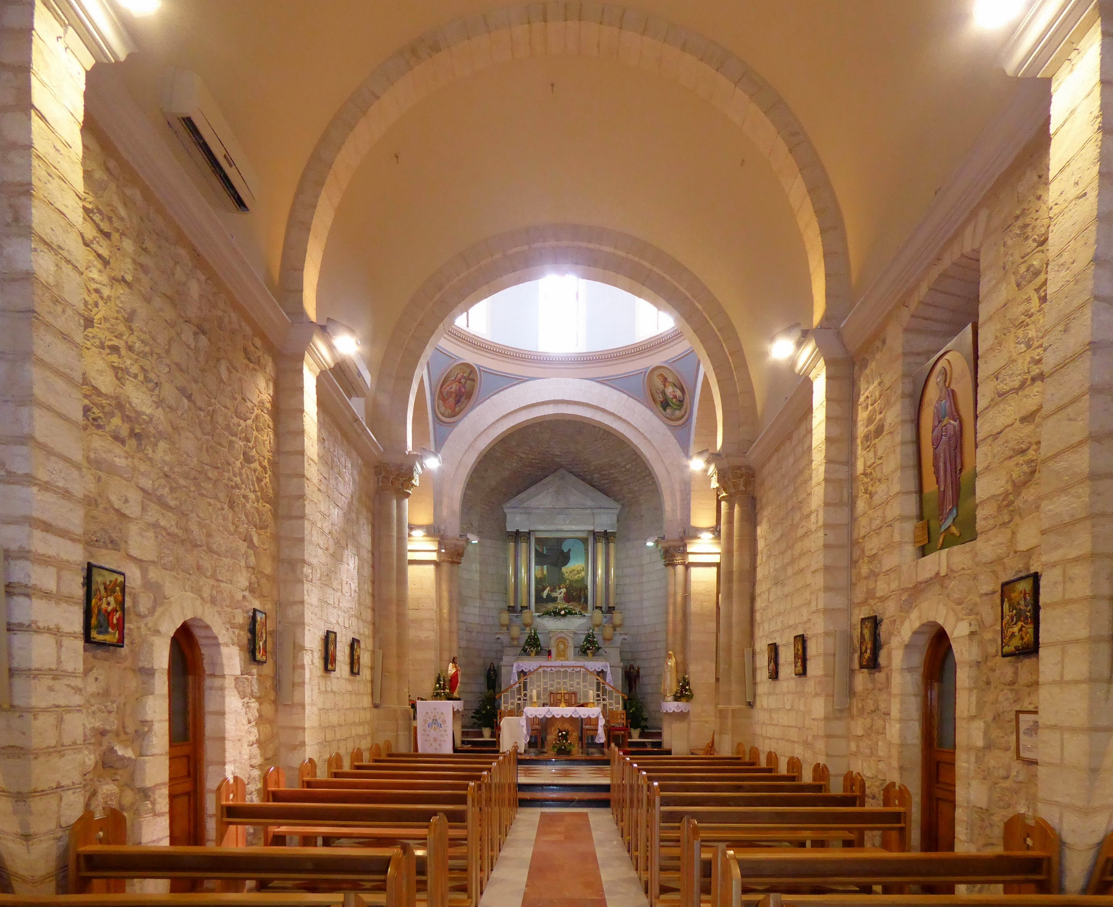 Catholic Wedding Church (Kafr Kana)